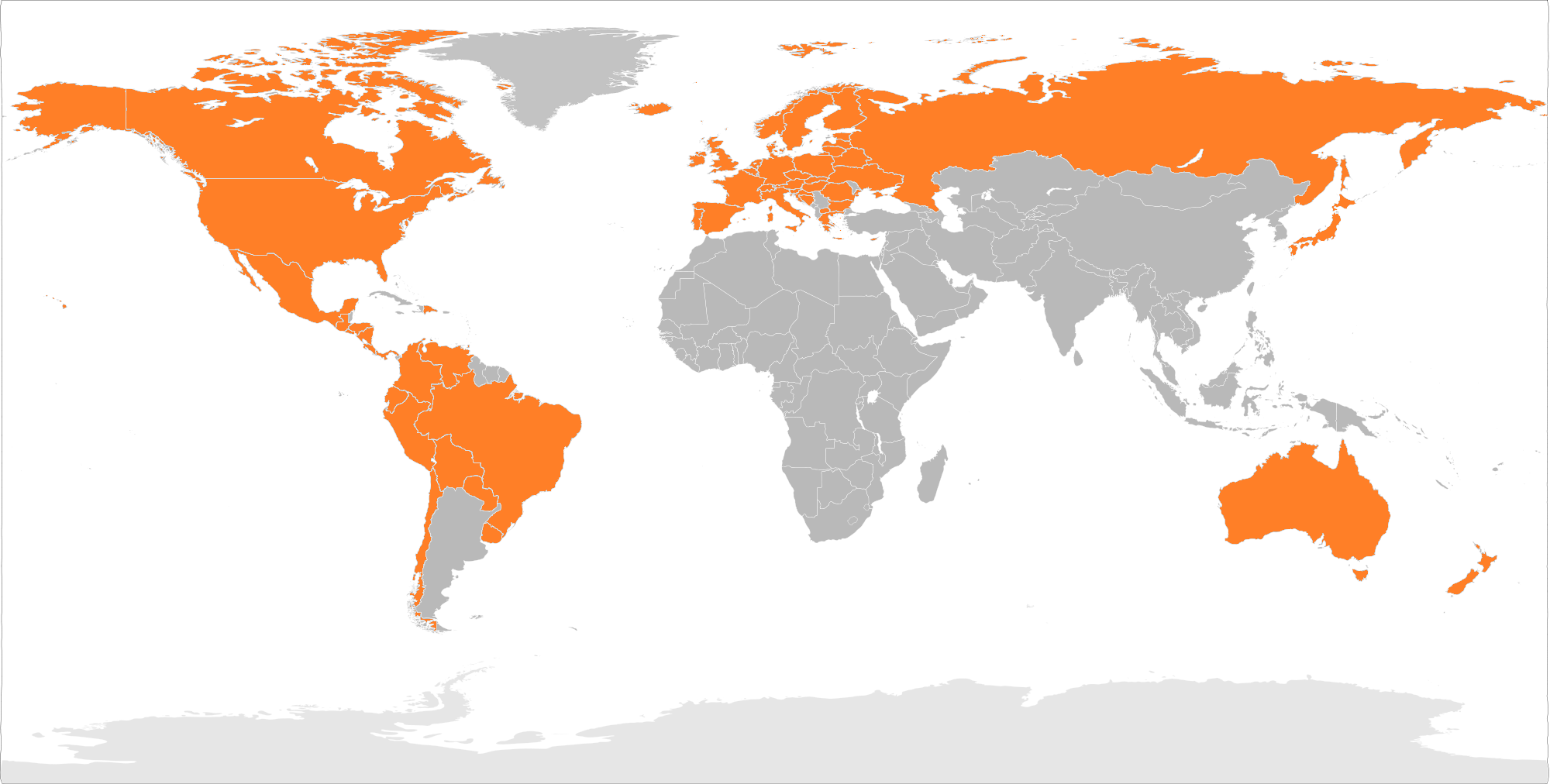 Countries, where Google Play Music is available. All Access Only buying Not available